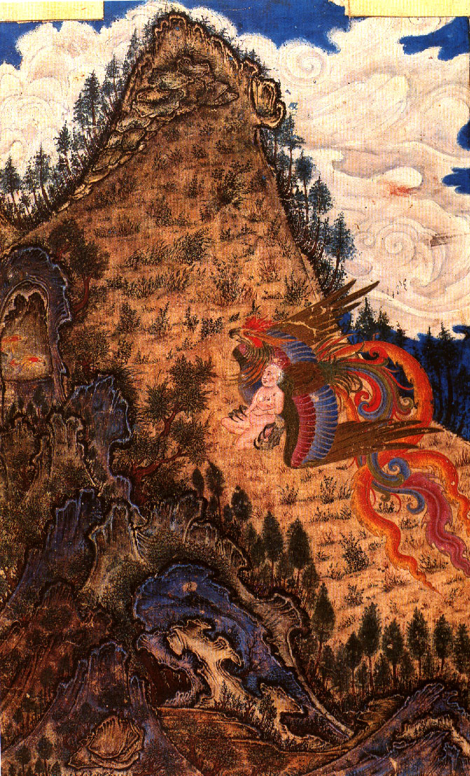 Abduction of Zal by the Simurgh Shah-nama. From the Sarai Albums Tabriz, ca. 1370 Hazine 2153, folio 23a Painting under the Jala'ir rule Kept at Topkapı Palace Museum